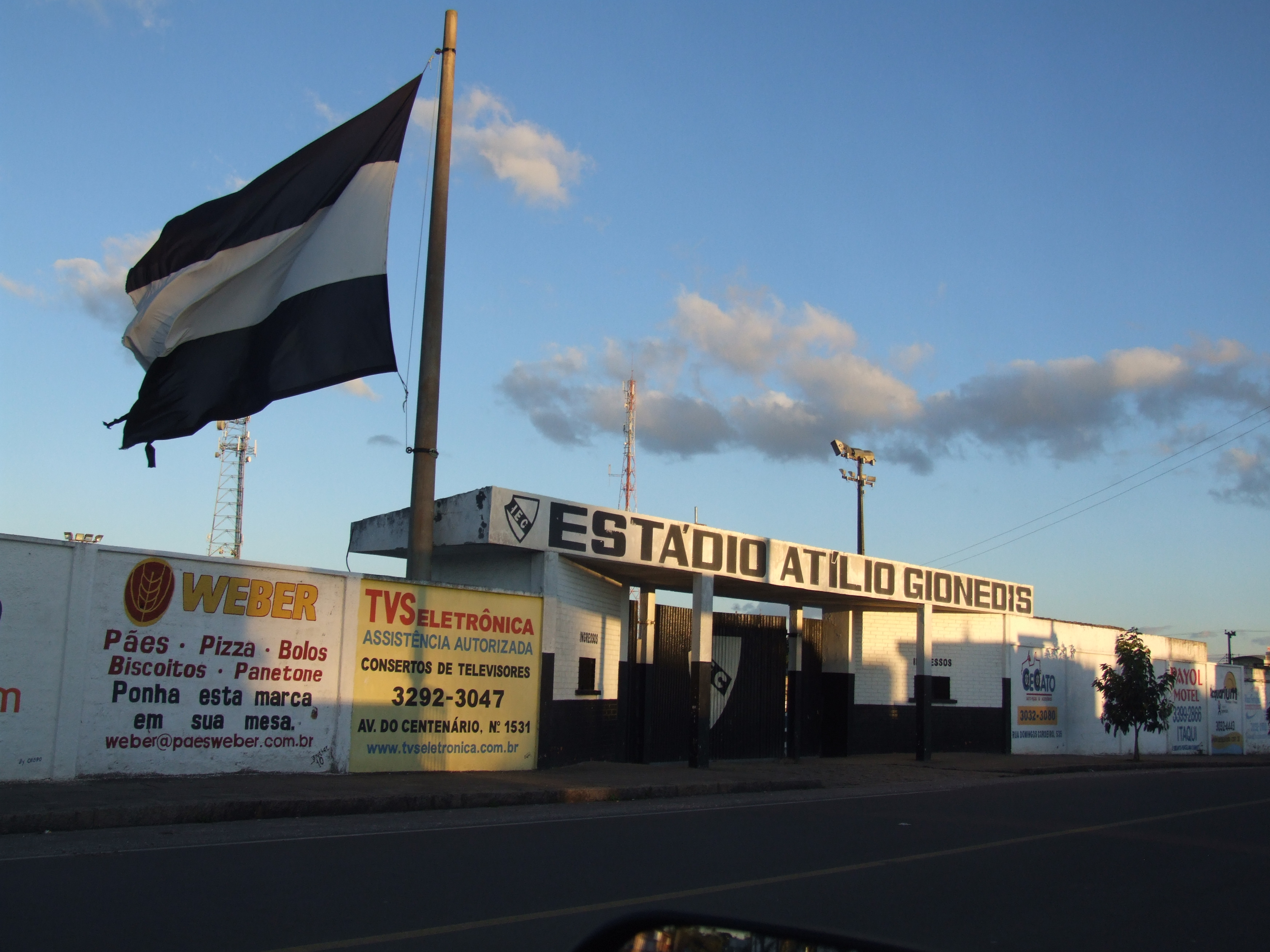 Atílio Gionédis Stadium in Campo Largo, Paraná, Brazil.